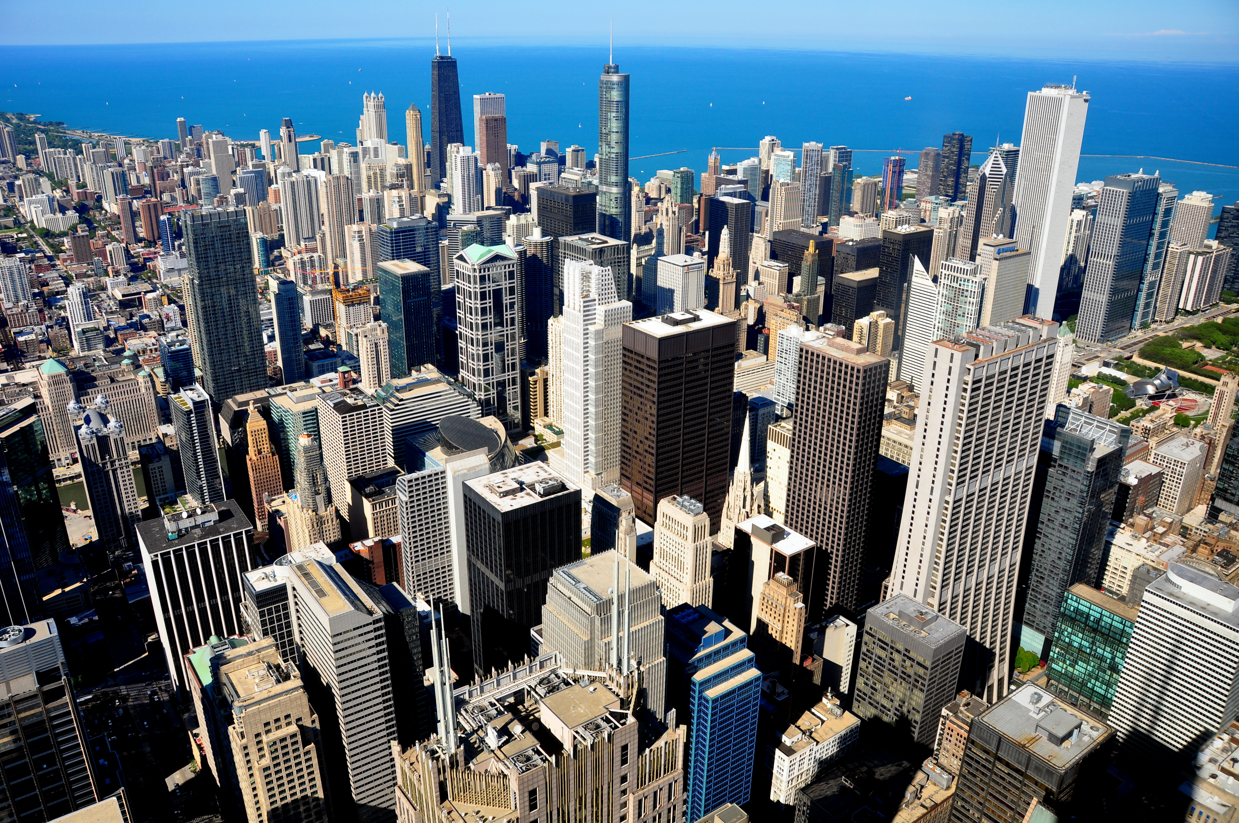 View of Chicago from Willis Tower